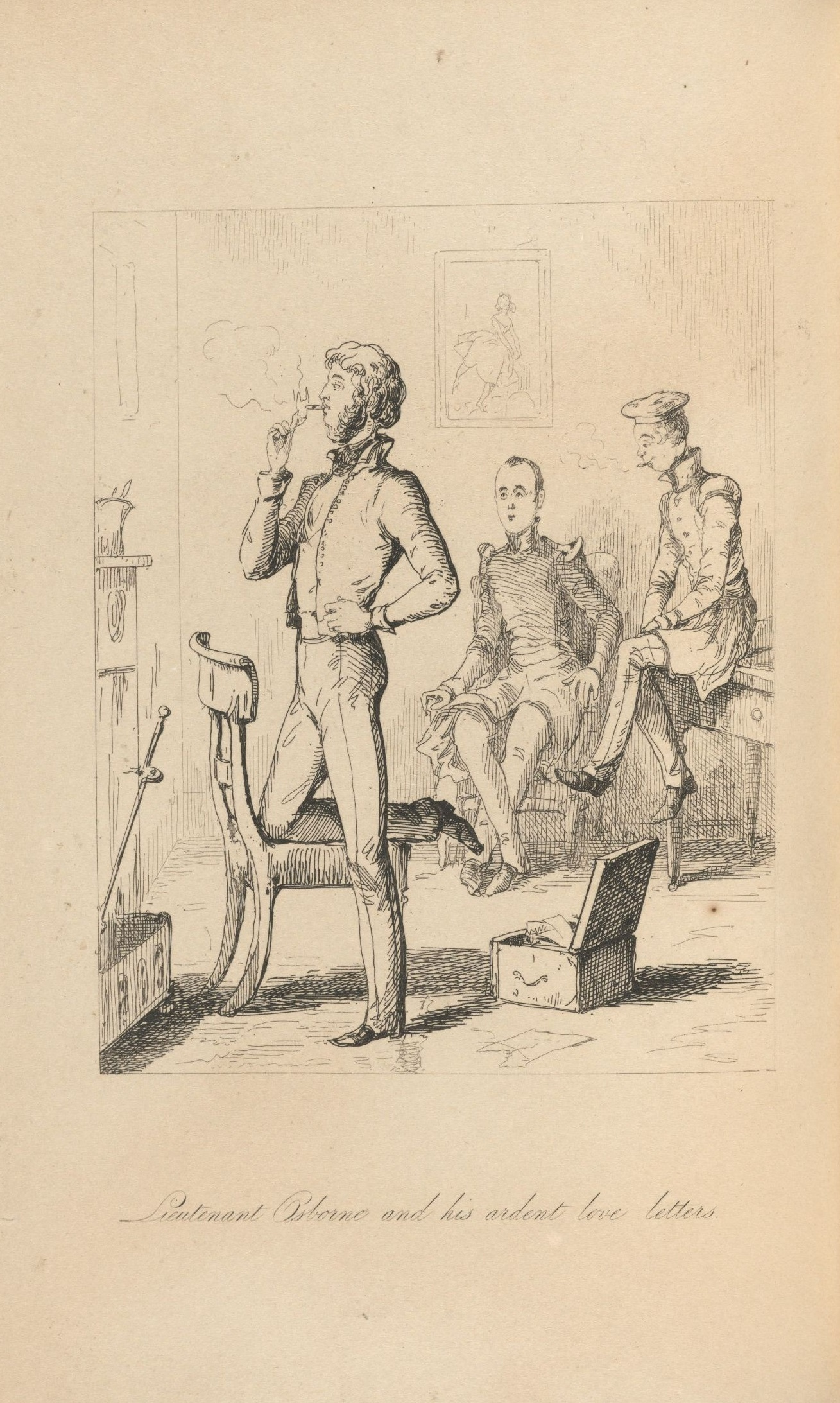 Illustration from Vanity Fair: a novel without a hero, London: Bradbury & Evans, 1848, by William Makepeace Thackeray (1811-1863). Scanned from the personal copy owned by William Charles Macready. *EC85 T3255 848vb, Houghton Library, Harvard University